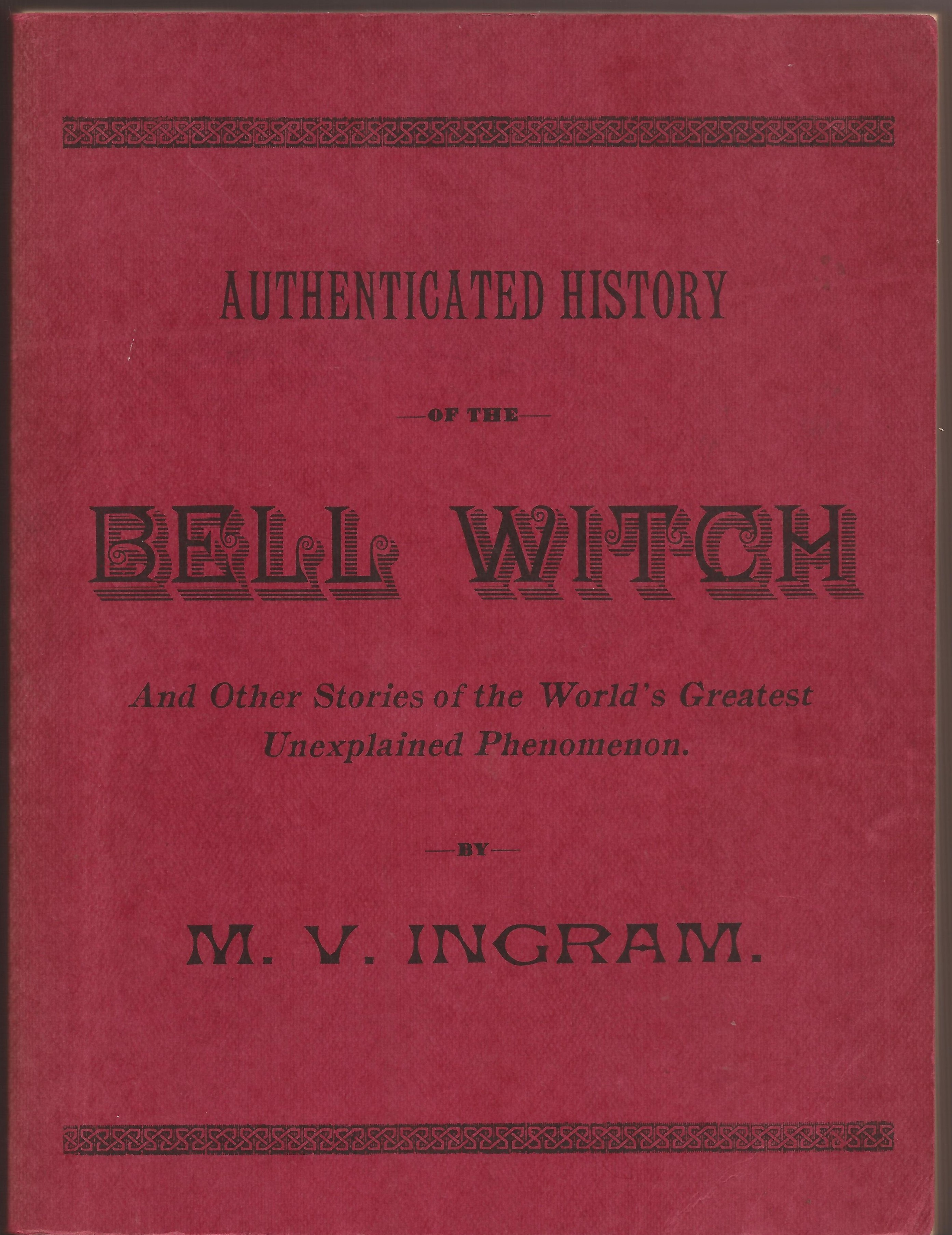 Book first published in 1894. Author, M. V. Ingram (1832-1909). Facsimile Reproduction published by Rare Book Reprints, Nashville, TN 1961.